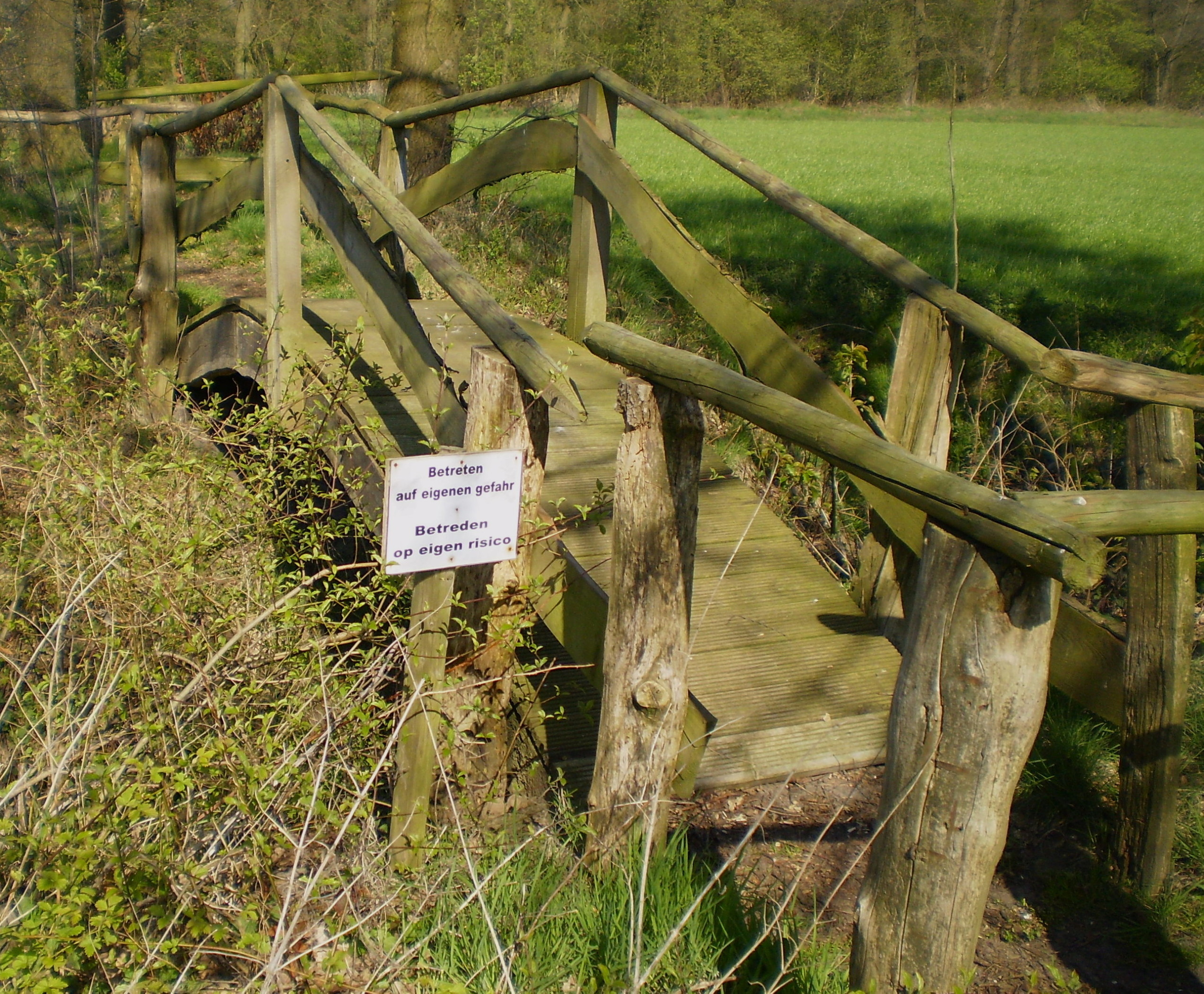 'Treading at own risk'